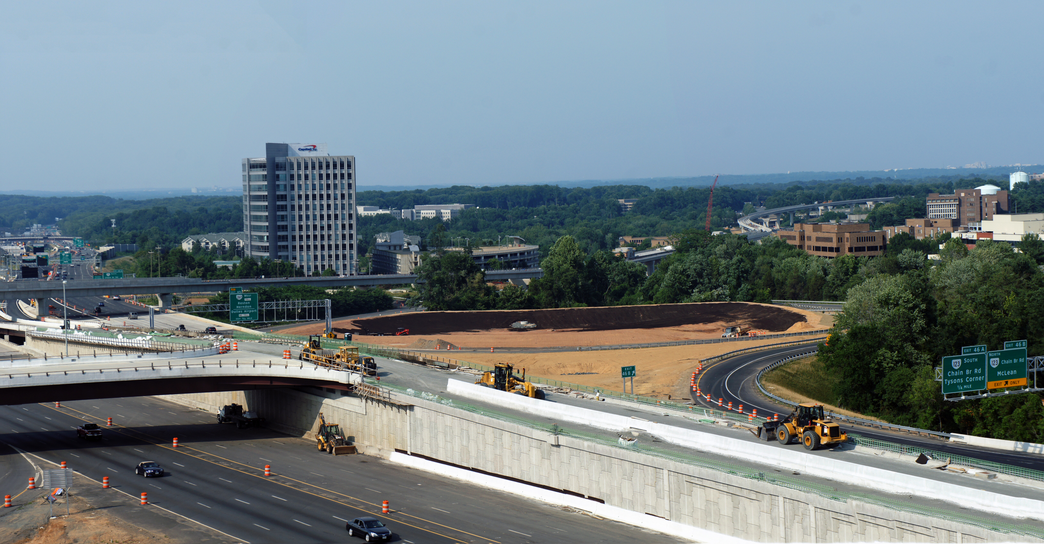 Capital Beltway (I-495) HOT lanes (495 Express Lanes) under construction. Picture shows I-495 interchange and elevated ramp access from Route 123 (Tysons Corner), in Fairfax County, Virginia.